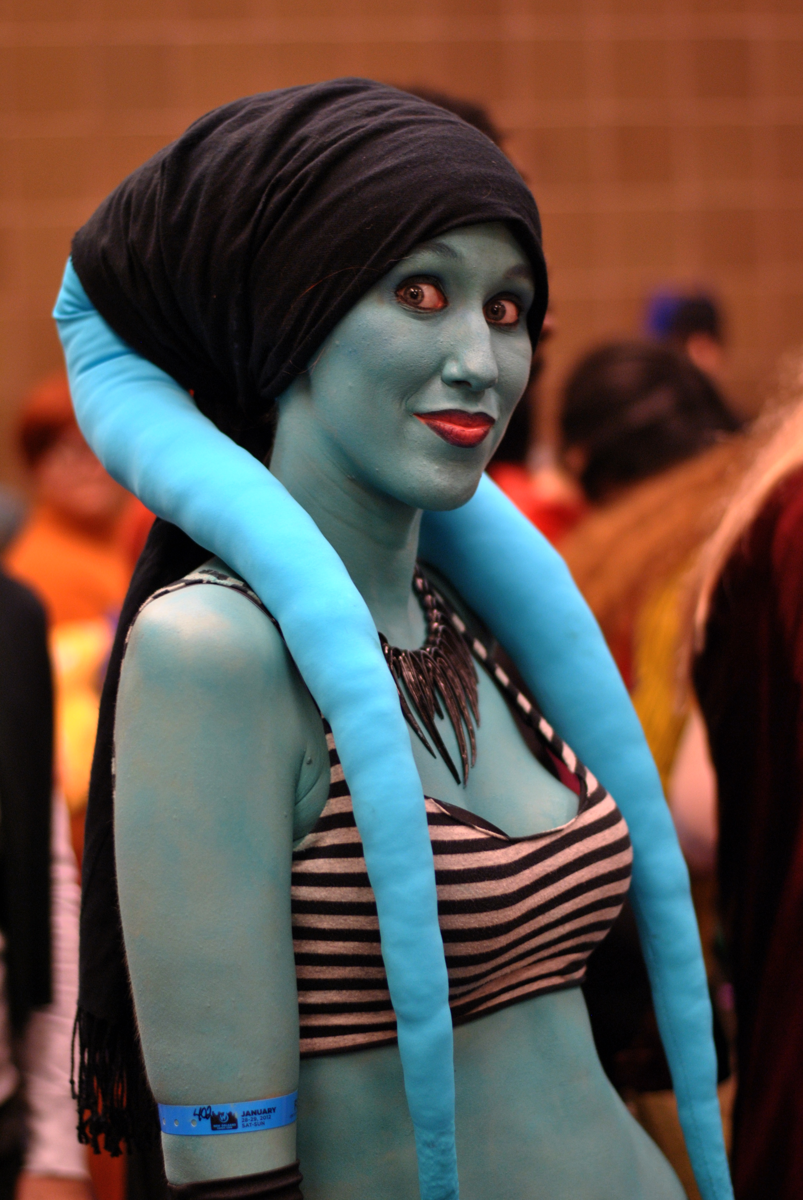 Twi'lek costumer at New Orleans Comic Con Jan 2012